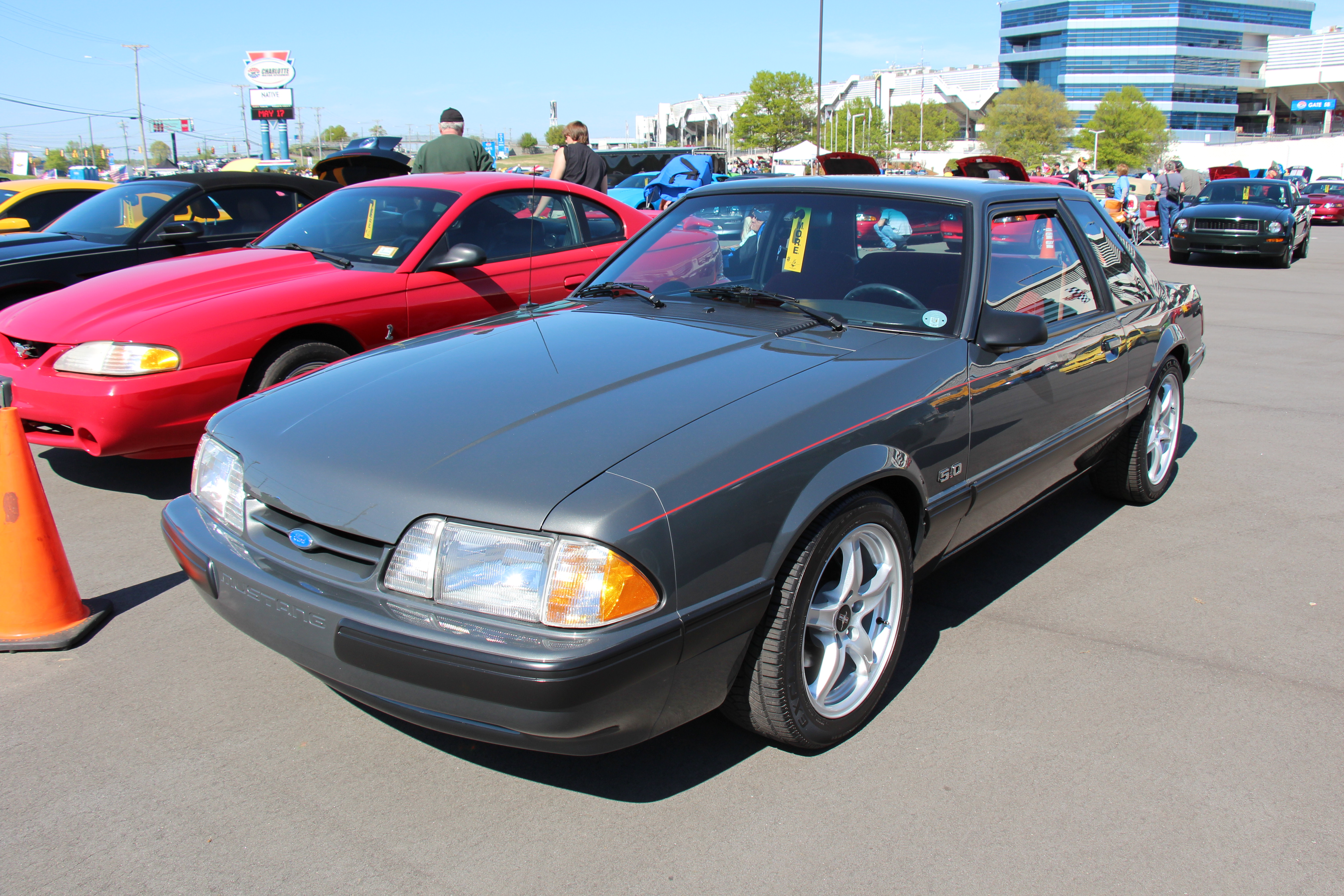 Photographed at the 50th Anniversary of the Mustang celebrations at the Charlotte Motor Speedway, April 2014